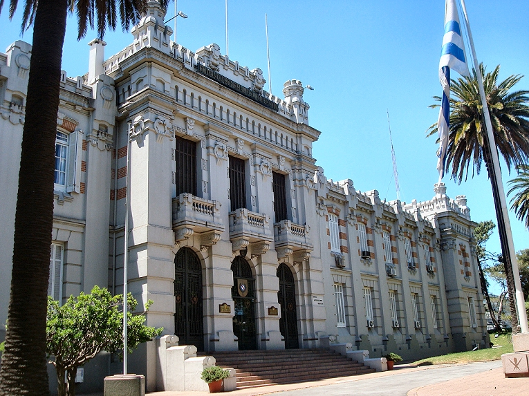 Comando del Ejército (ex-Escuela Militar) in Jacinto Vera, Montevideo, Uruguay. Obra del Gral. Arq. Alfredo R. Campos.